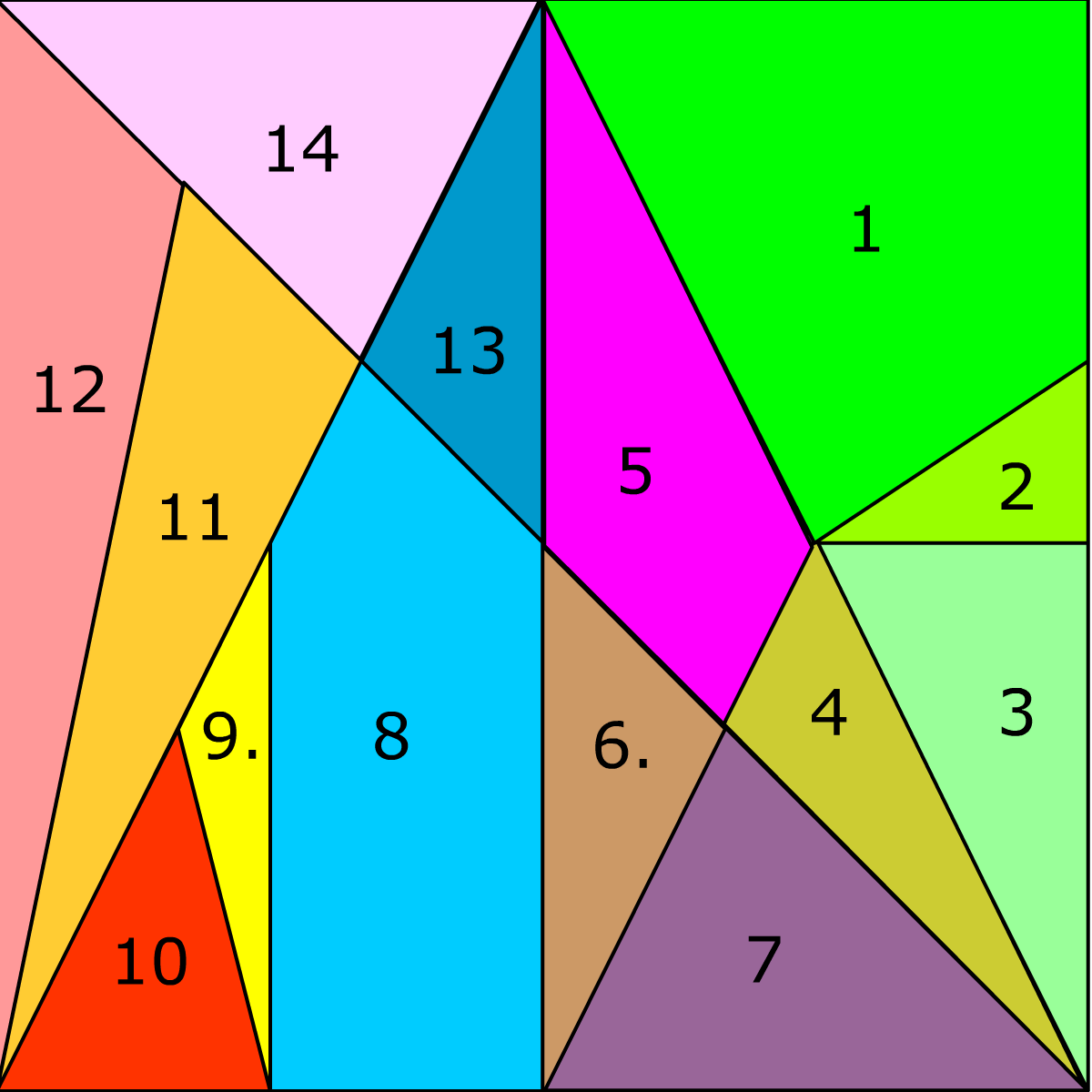 Stomachion